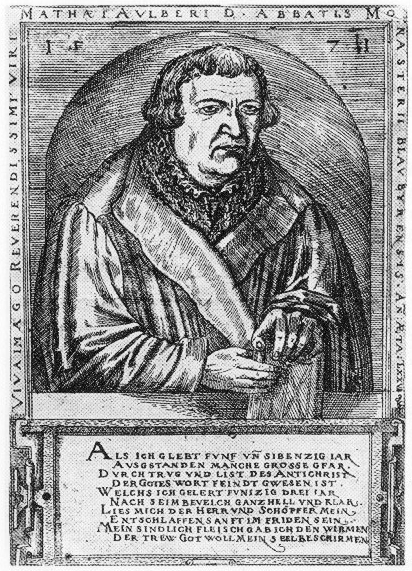 Matthäus Alber (Aulber), german church reformer, 1495-1570